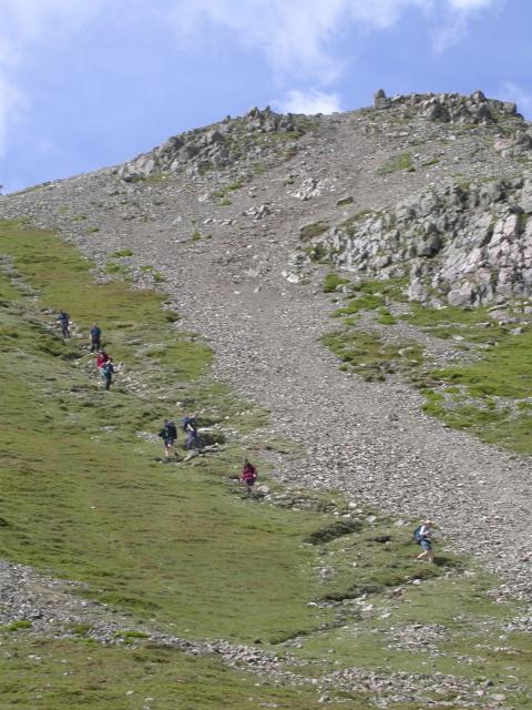 High Crag. Taken from about the middle of the square looking NW up High Crag.